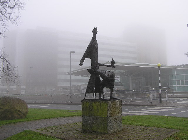 Altnagelvin Area Hospital, Derry / Londonderry. The building on a foggy morning takes on a ghostly appearance. In 1957, the architects of the new hospital at Altnagelvin commissioned the striking bronze 'Princess Macha' from FE McWilliam, referred to by Mike Catto in Art in Ulster 2 as ‘the coming of age of Ulster sculpture’. This landmark sculpture also marks the beginning of a series of public art commissions within the health service in Northern Ireland.